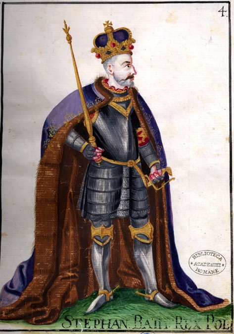 From Trachten-Kabinett von Siebenbürgen album. Drawn in 1729, based on the 1692 watercolours of an artist from Graz Given to the Romanian Academy by Baron Ludovic Czekelius of Rosenfeld. Stephan Bath. Rex Pol